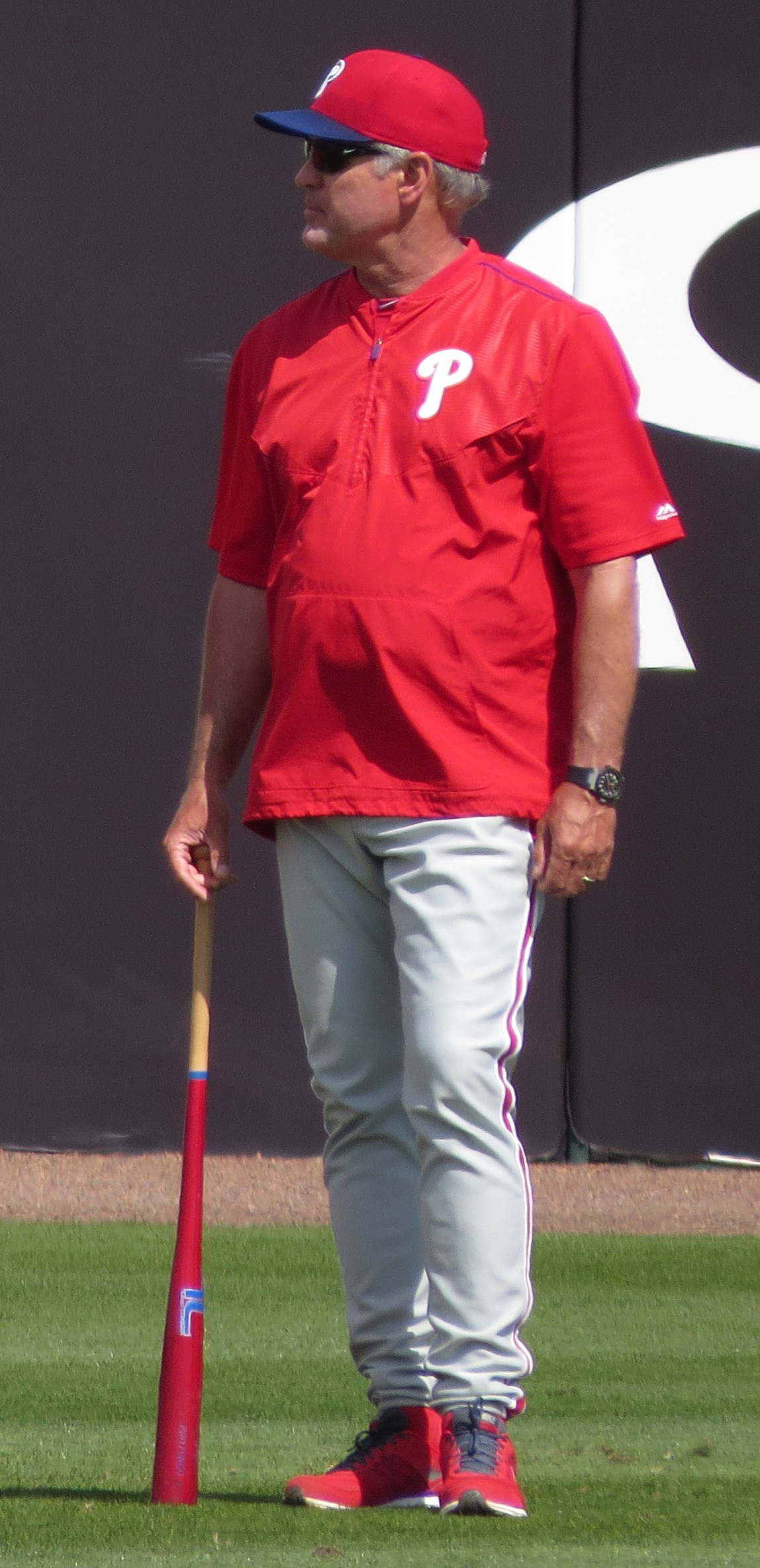 Ryne Sandberg